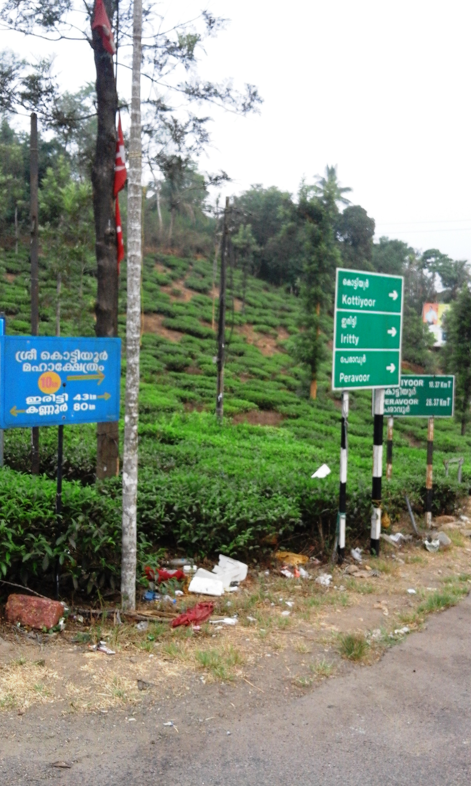 Wayanad district, Kerala province, India.